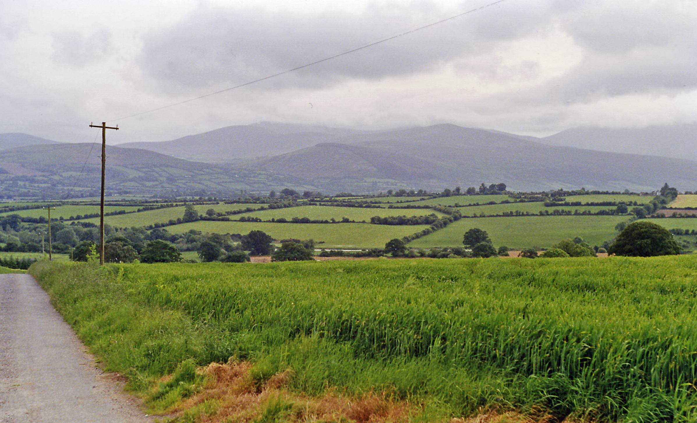 SW across valley of River Suir to Knockmealdown Mountains from near Ballydonagh. SW view from Clonmel - Dungarvan road, Co. Waterford/Co. Tipperary border.